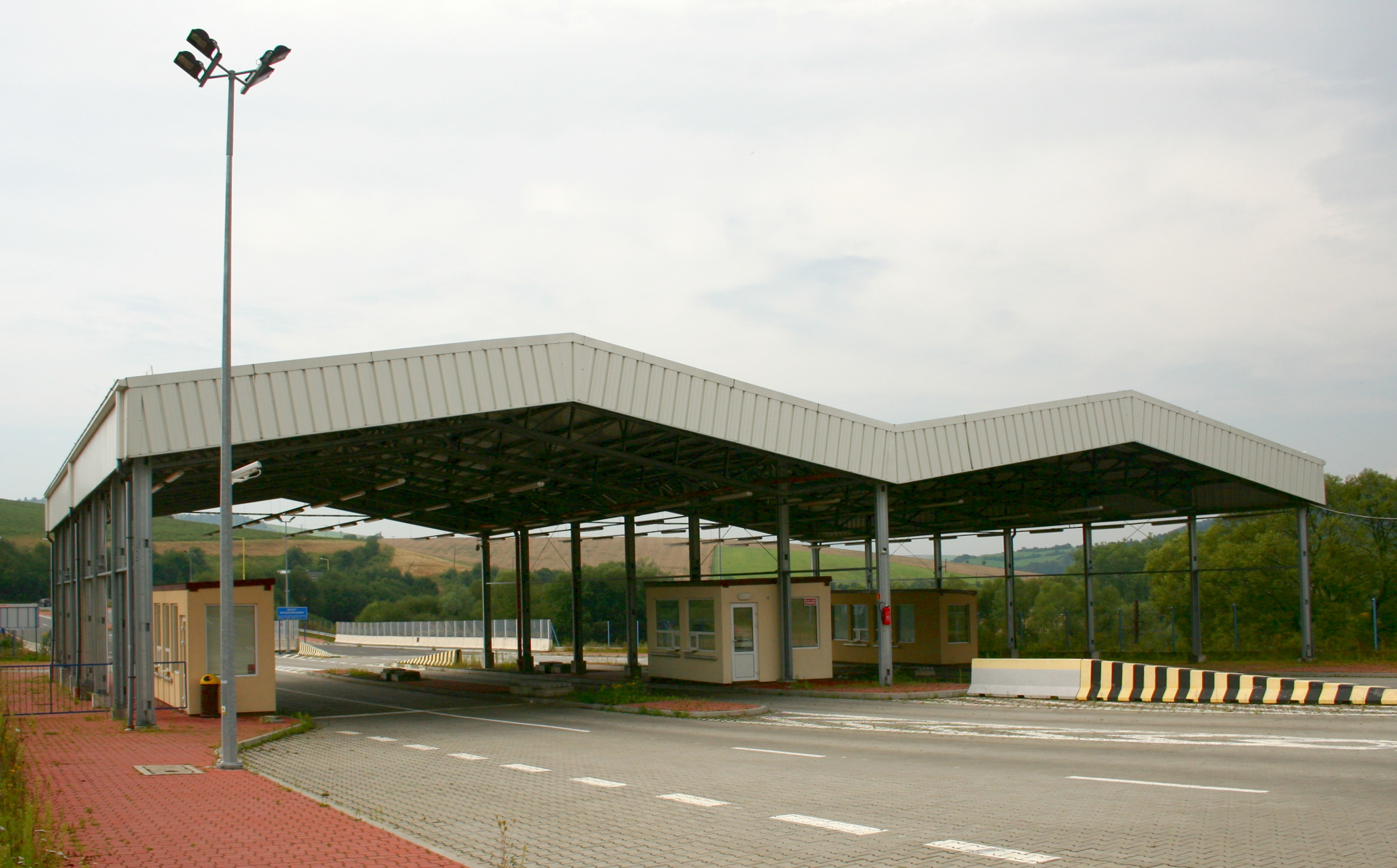 old international border crossing Leluchów-Čirč (betwenn Poland and Slovakia)